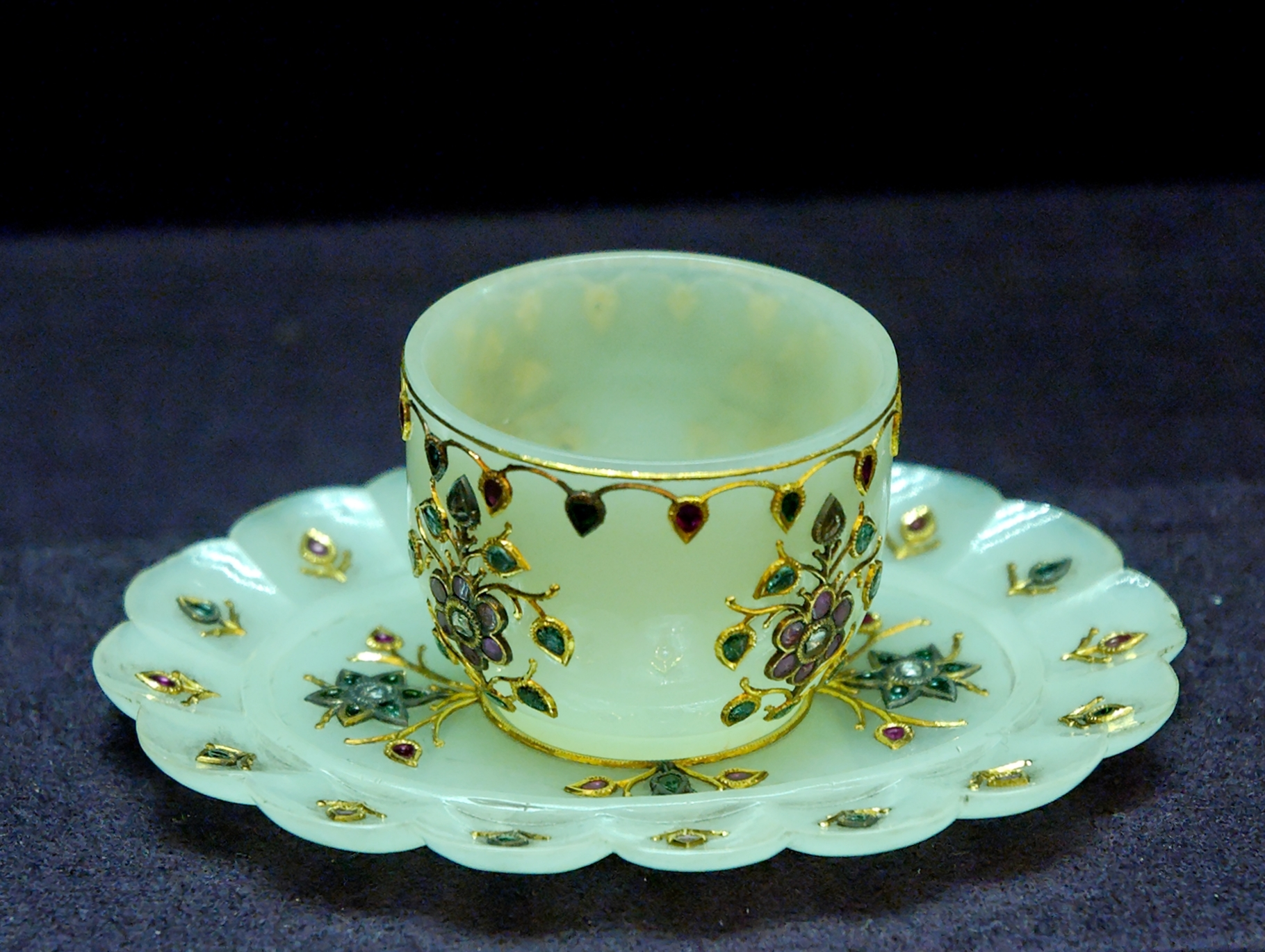 Cup and saucer. India, Mughal Dynasty, 18th century.